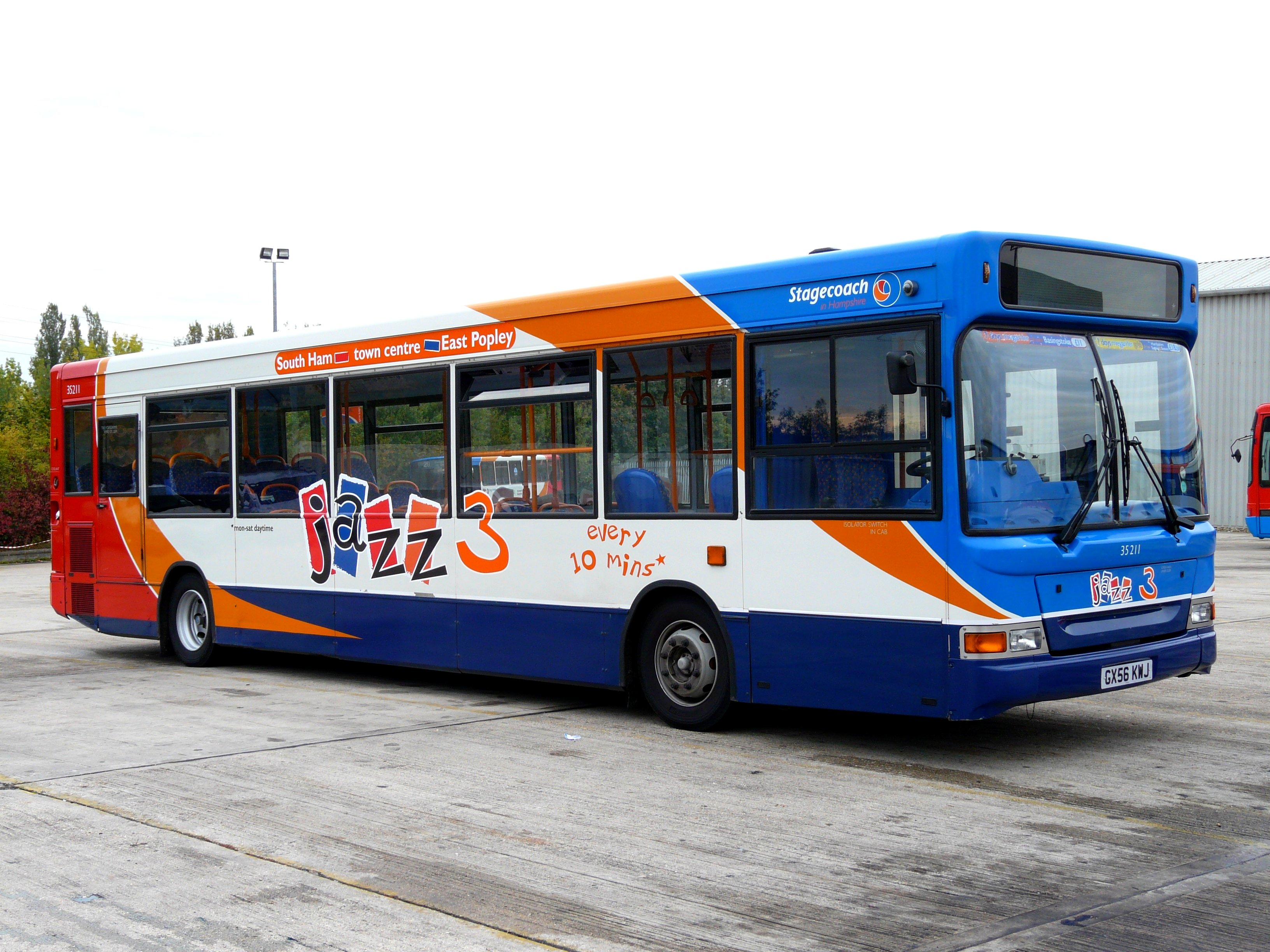 Stagecoach in Hampshire 35211 (GX56 KWJ), an Alexander Dennis Dart SLF/Pointer, wearing Jazz 3 branding for route 3. It is seen in the company's Basingstoke depot.